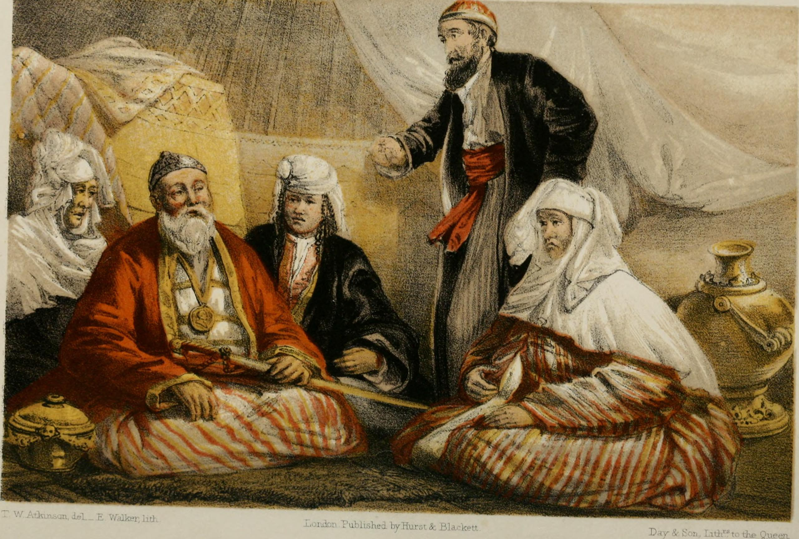 group of Kyrgyz